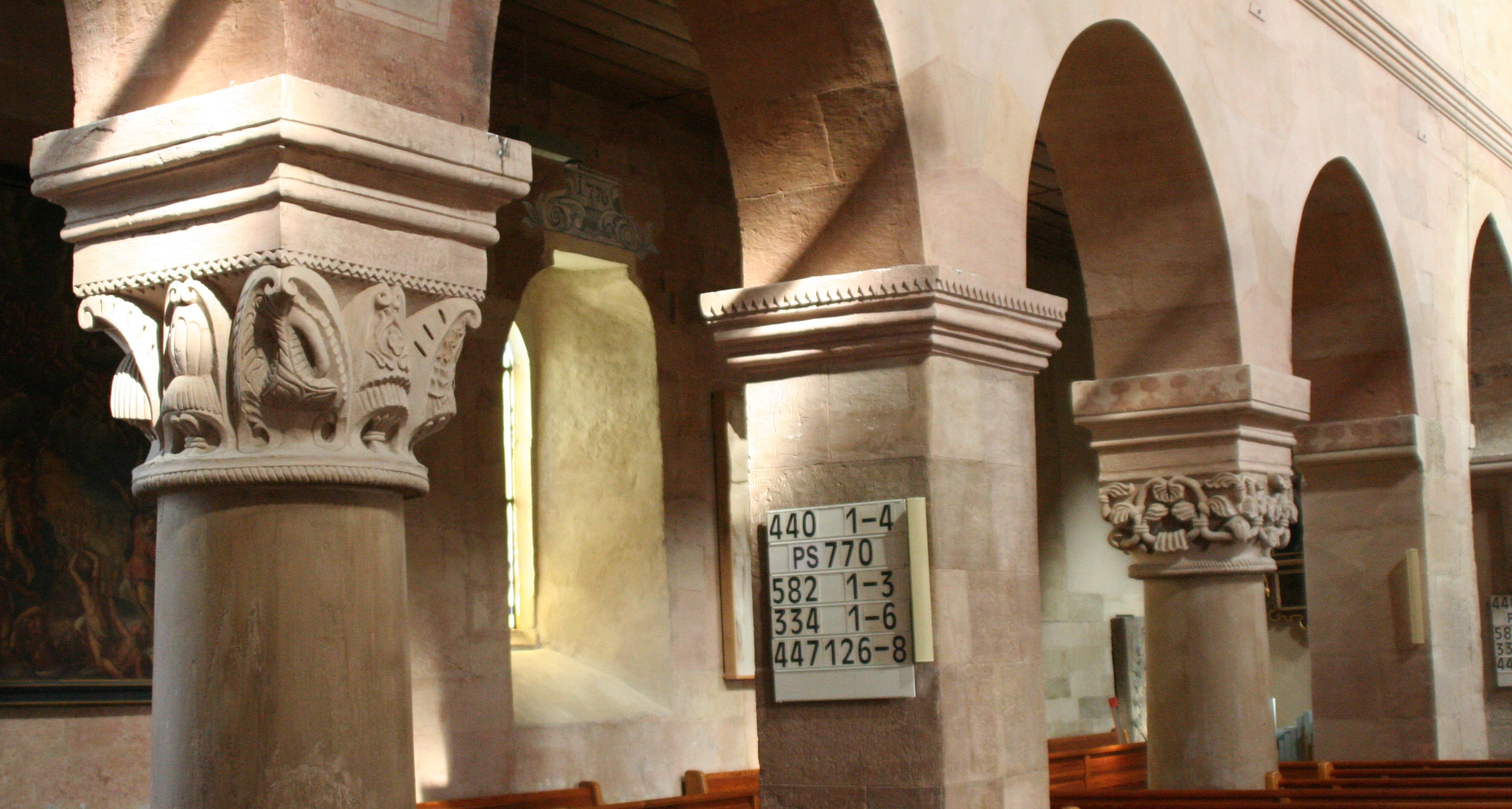 The Johanneskirche (St John's church) in Weinsberg. Alternating columns and pillars in the nave